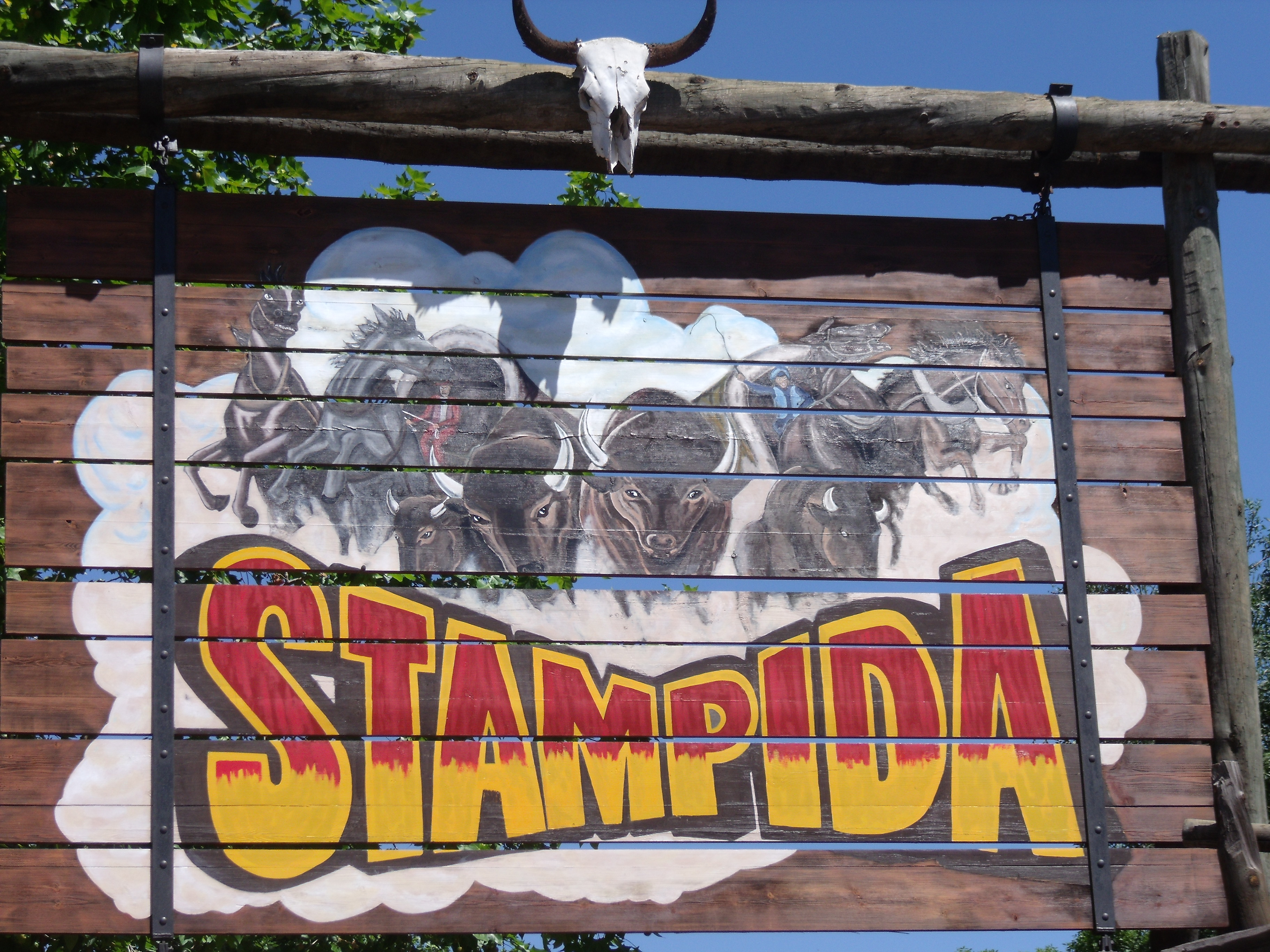 Stampida at the PortAventura theme park in Salou, Catalonia, Spain.